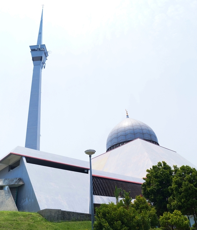 The town mosque in Sandakan